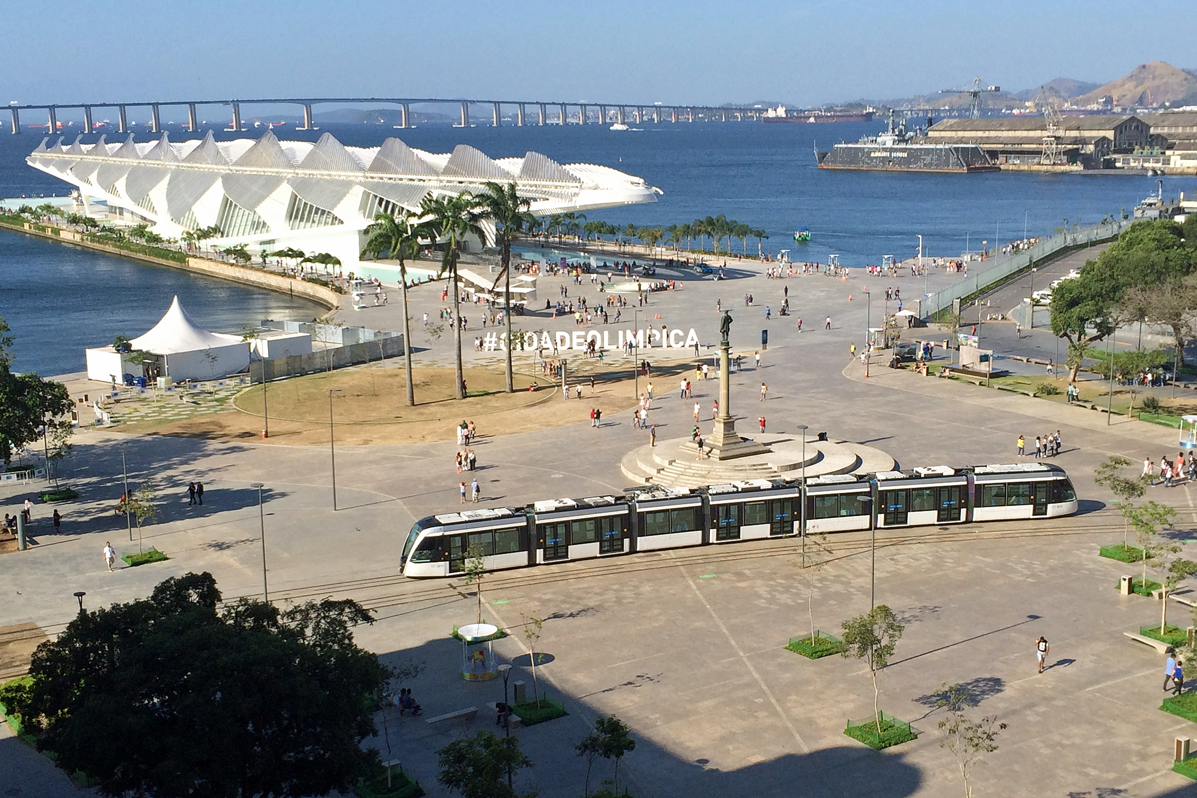 LRT Carioca, Rio de Janeiro. Aerial view of the tram at Tram at Praça Mauá.